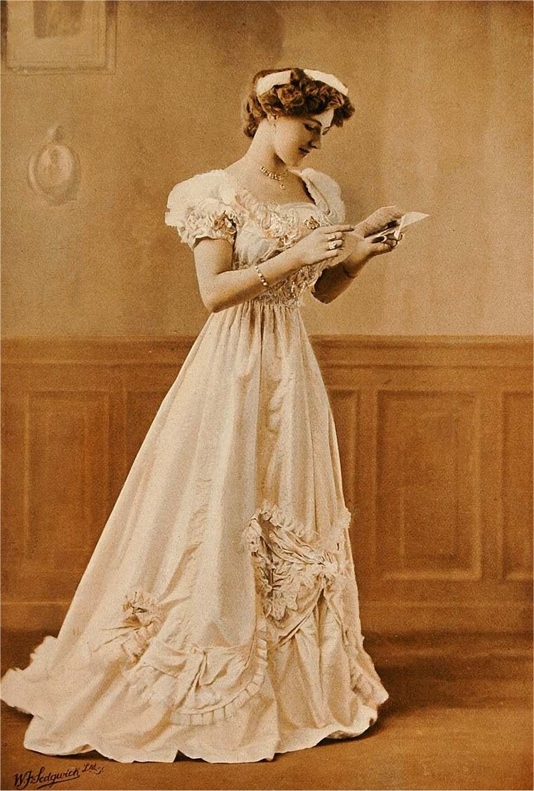 Edna Loftus, British actress, in 1908. She was in the London version of the 1906 musical comedy, The New Aladdin in the small role of Madge Oliphant and was part of the "The Merry Widow" company for the Gaiety Theater. She also was briefly married to champion jockey Winnie O'Connor. She died in poverty of tuberculosis in 1916 and is buried in San Francisco, California, USA.